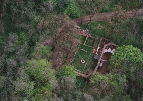 Salföld, Hungary, aerialphotography